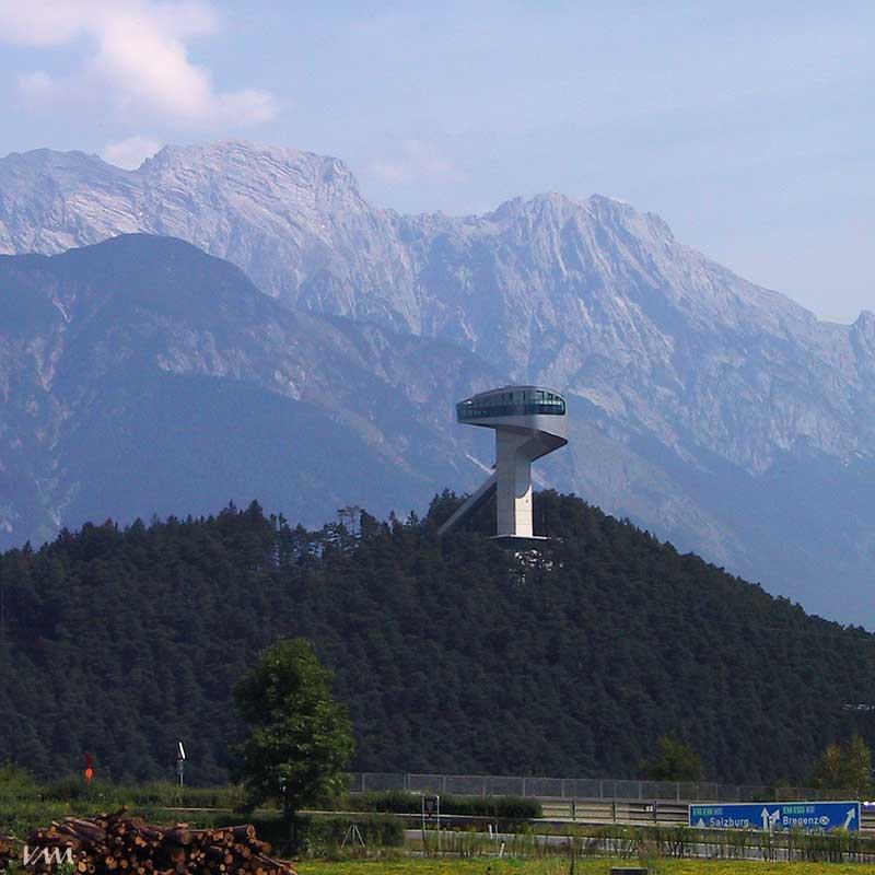 View of Bergisel ski jumping hill in Innsbruck (Austria) from the South